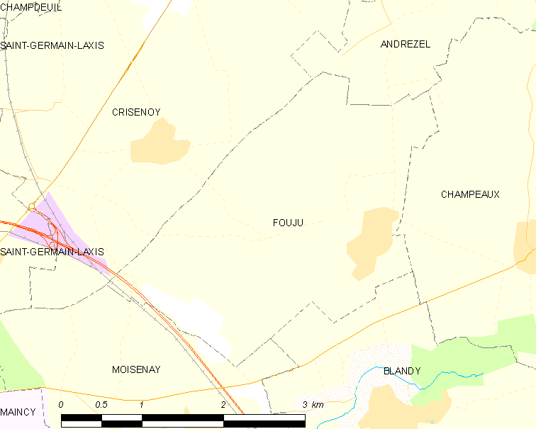 Map of French municipality Fouju